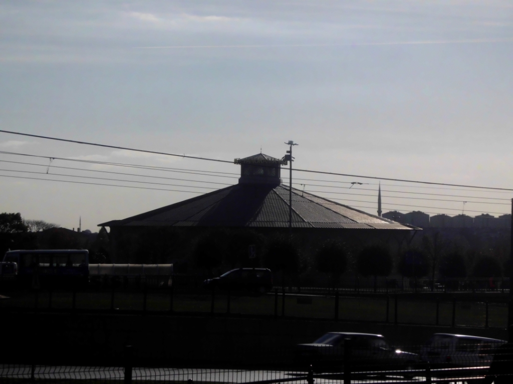 topkapı1